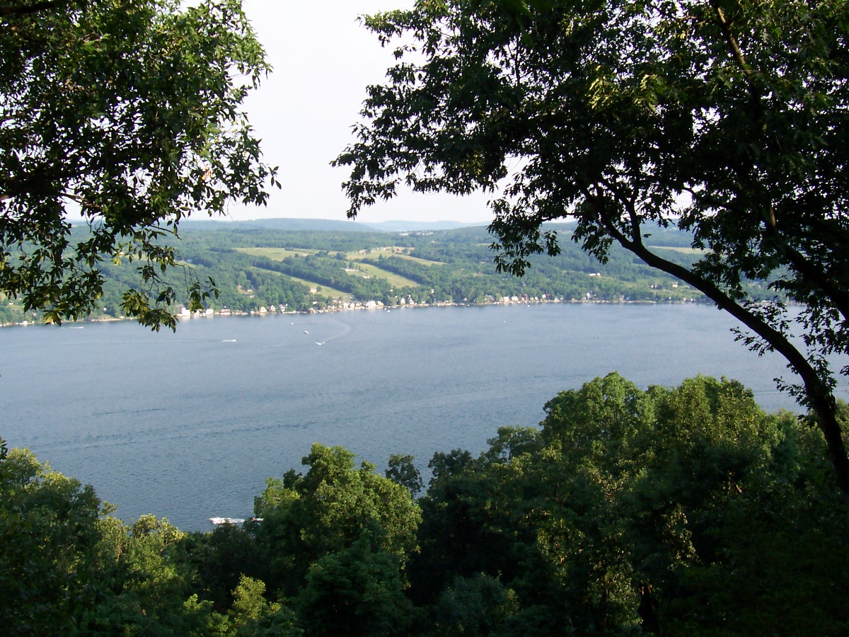 View of Keuka Lake.